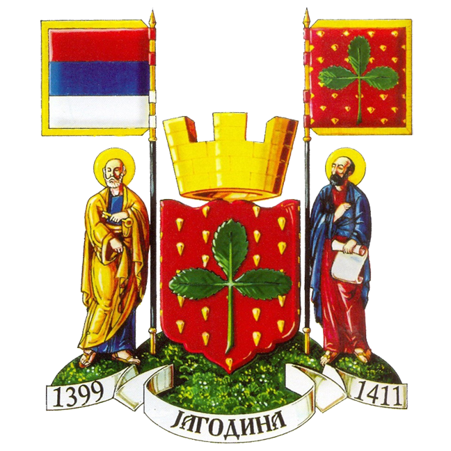 Coat of Arms of Jagodina, Serbia